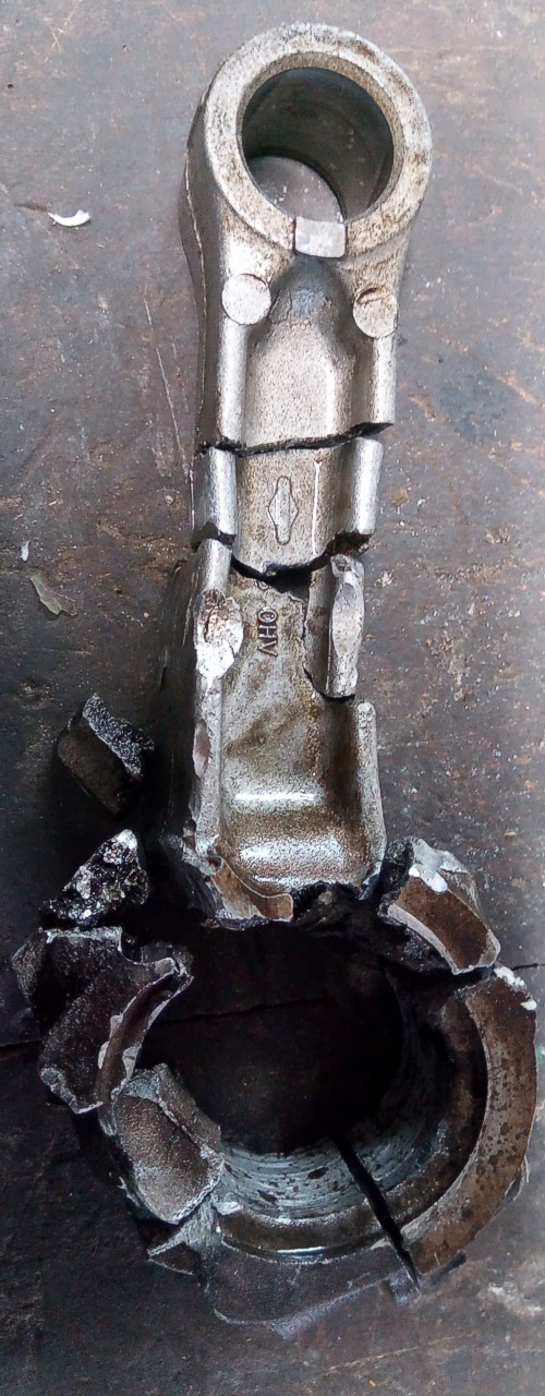 Aluminum connecting rod for 4-stroke engine, fatigue breakage and subsequent impact with the crankshaft.